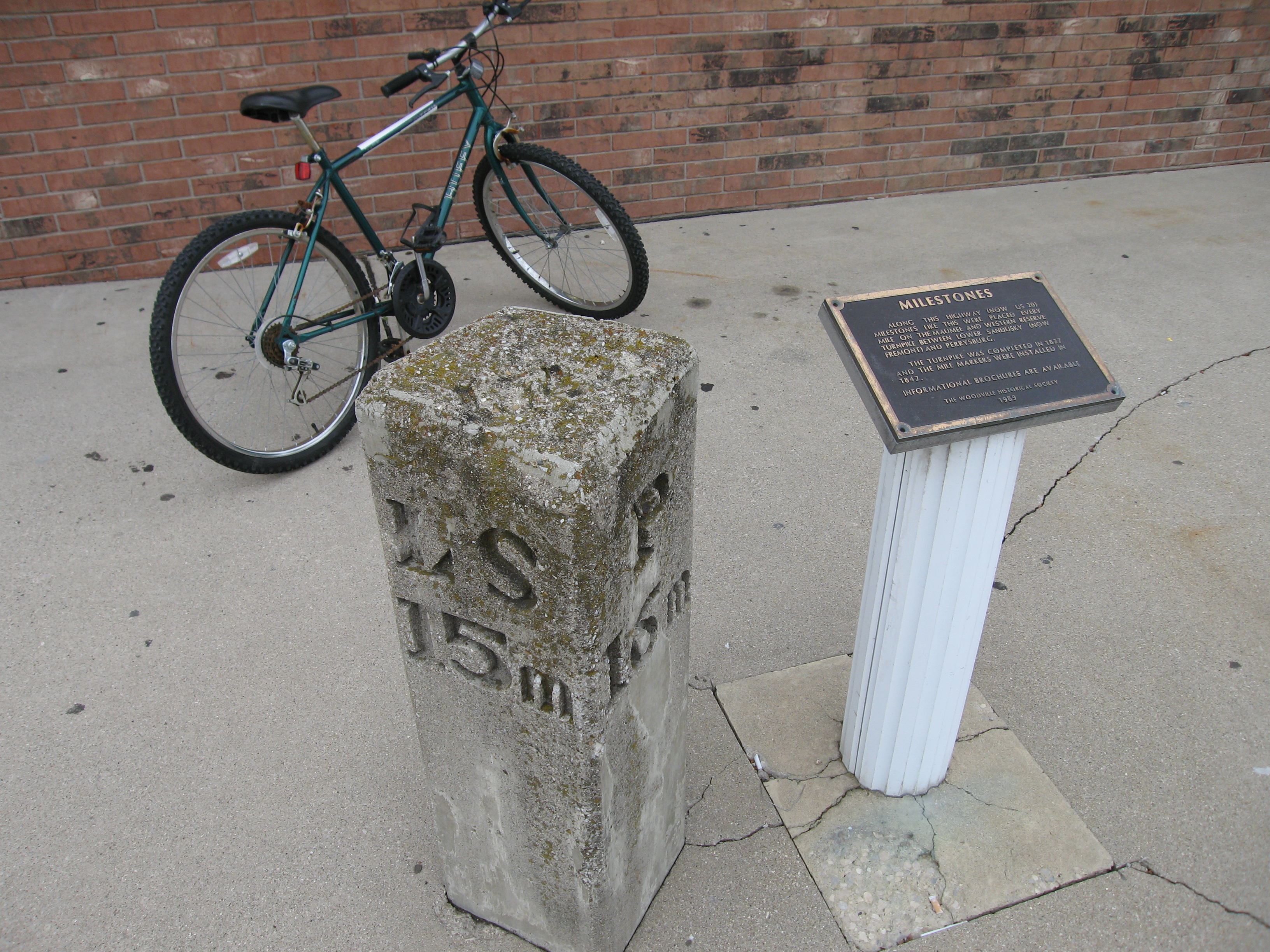 Photograph of the "Old Mud Pike" milestoneen along modern U.S. Route 20 in Woodville, Ohioen. Placed on the Maumee and Western Reserve Turnpike in 1842, it marks a point on the road that was 16 miles from Perrysburg and 15 miles from Lower Sandusky (now Fremont).